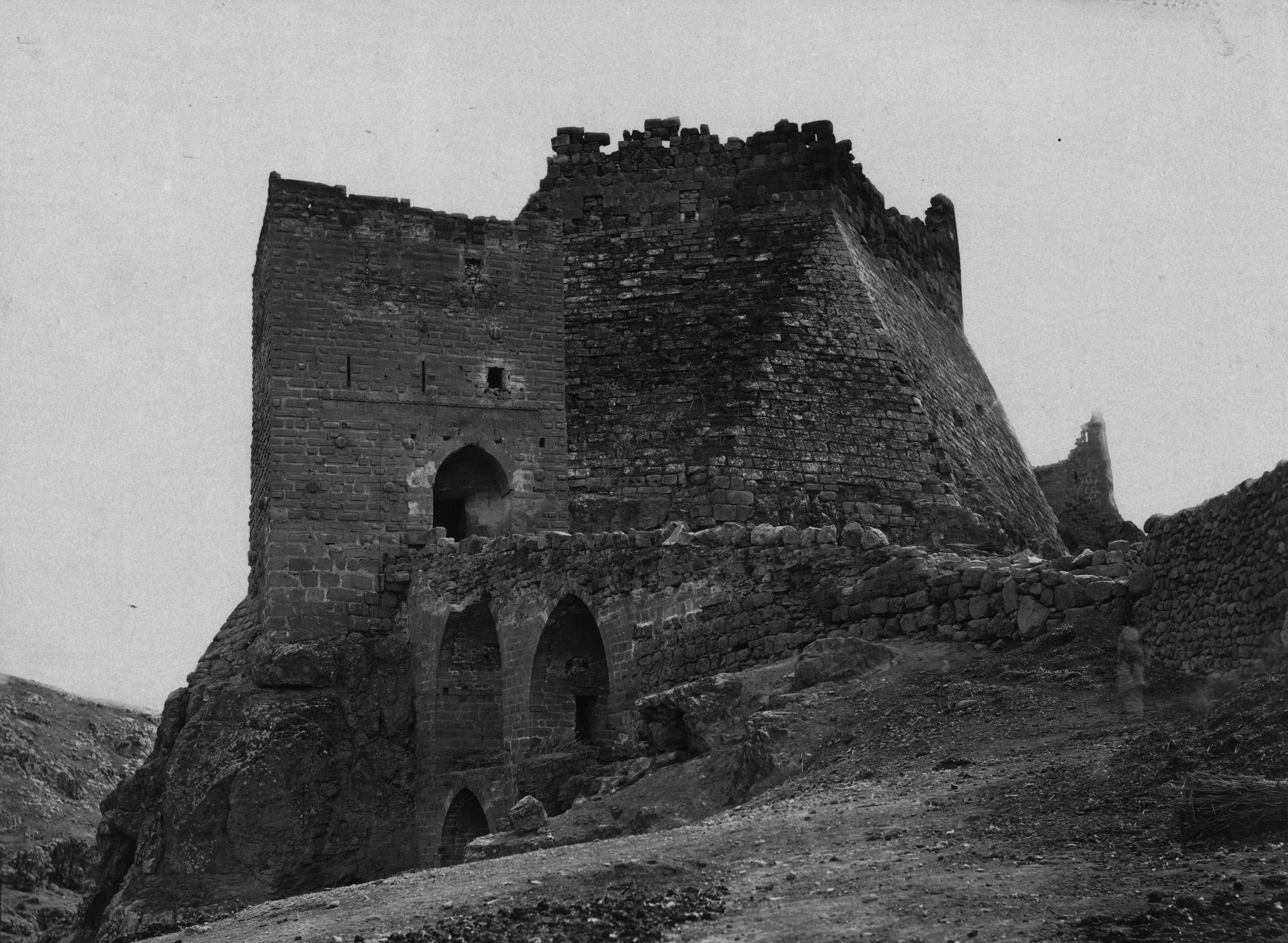 Shaizar fortress in the late 19th century